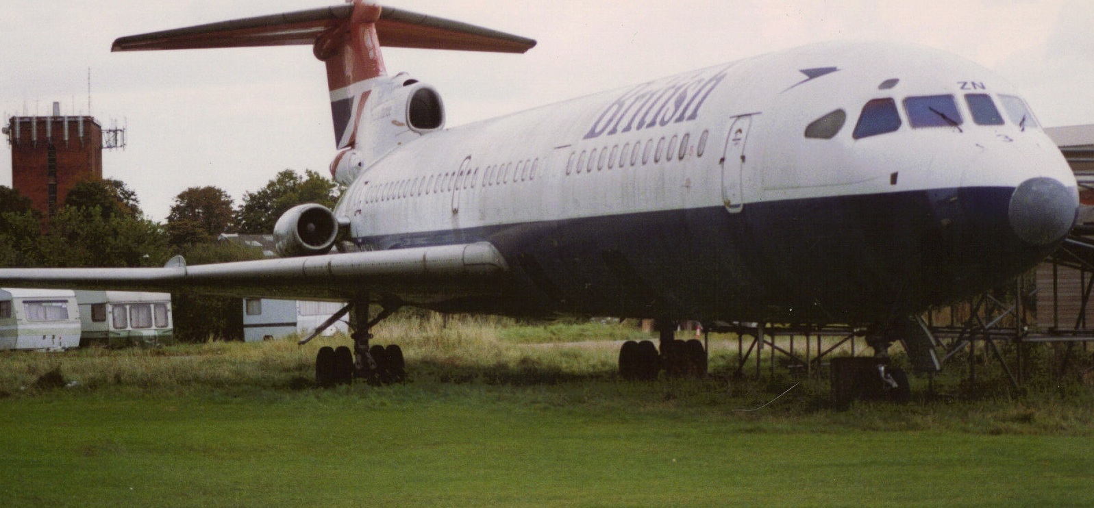 A preserved Hawker Siddeley Trident at the Cranfield Airport